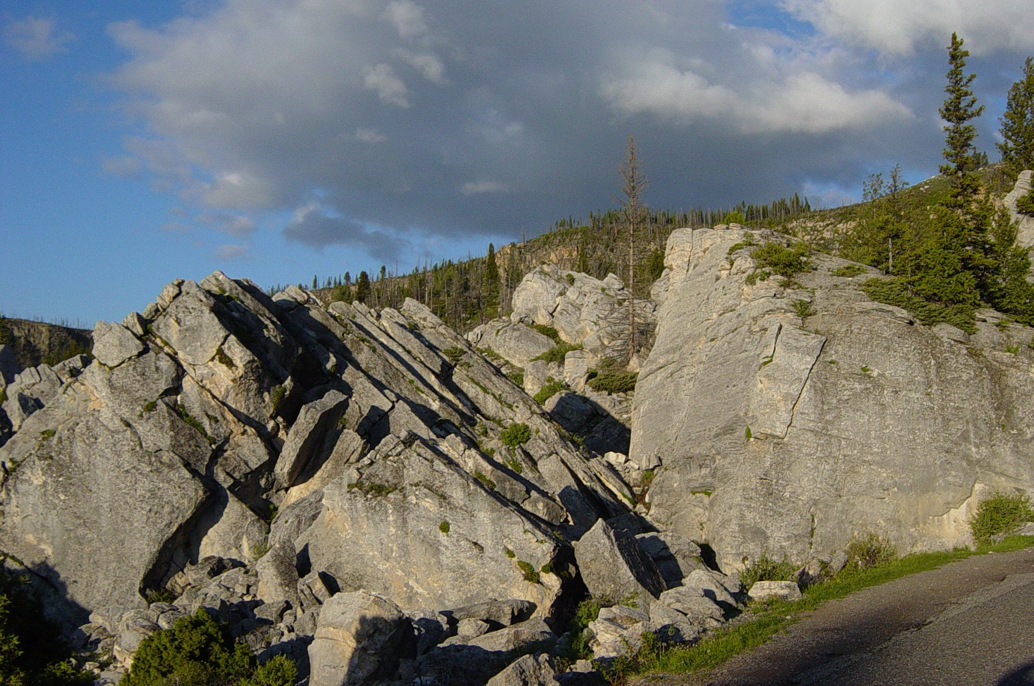 Photo taken in the Yellowstone area.